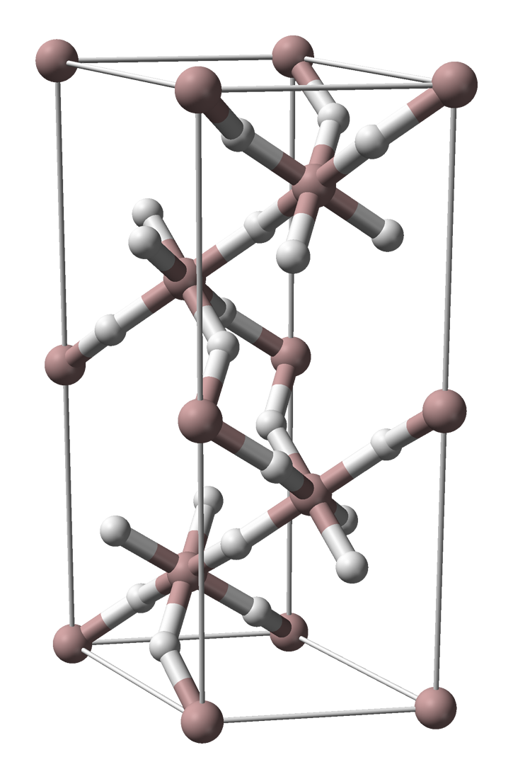 Ball-and-stick model of the unit cell of the alpha polymorph of aluminium hydride (alane), α-AlH3. X-ray and neutron diffraction data from June W. Turley and Harold W. Rinn (1969). "Crystal structure of aluminum hydride". Inorg. Chem. 8 (1): 18-22. Image generated in Accelrys DS Visualizer.